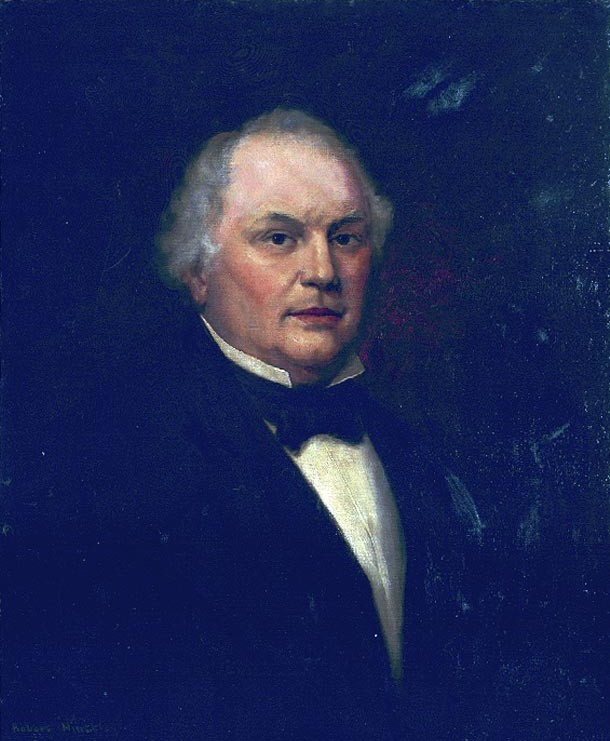 John Y. Mason, Secretary of the Navy, 26 March 1844 - 10 March 1845, and 10 September 1846 - 7 March 1849